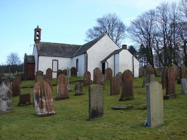 Boreland: Hutton & Corrie Parish Church Church perches on shoulder of hill on the Corrie road, just SSE of the village of Boreland. Church dates from 1710 with alterations up to about 1871. The churchyard has some fine 17-18 century gravestones.